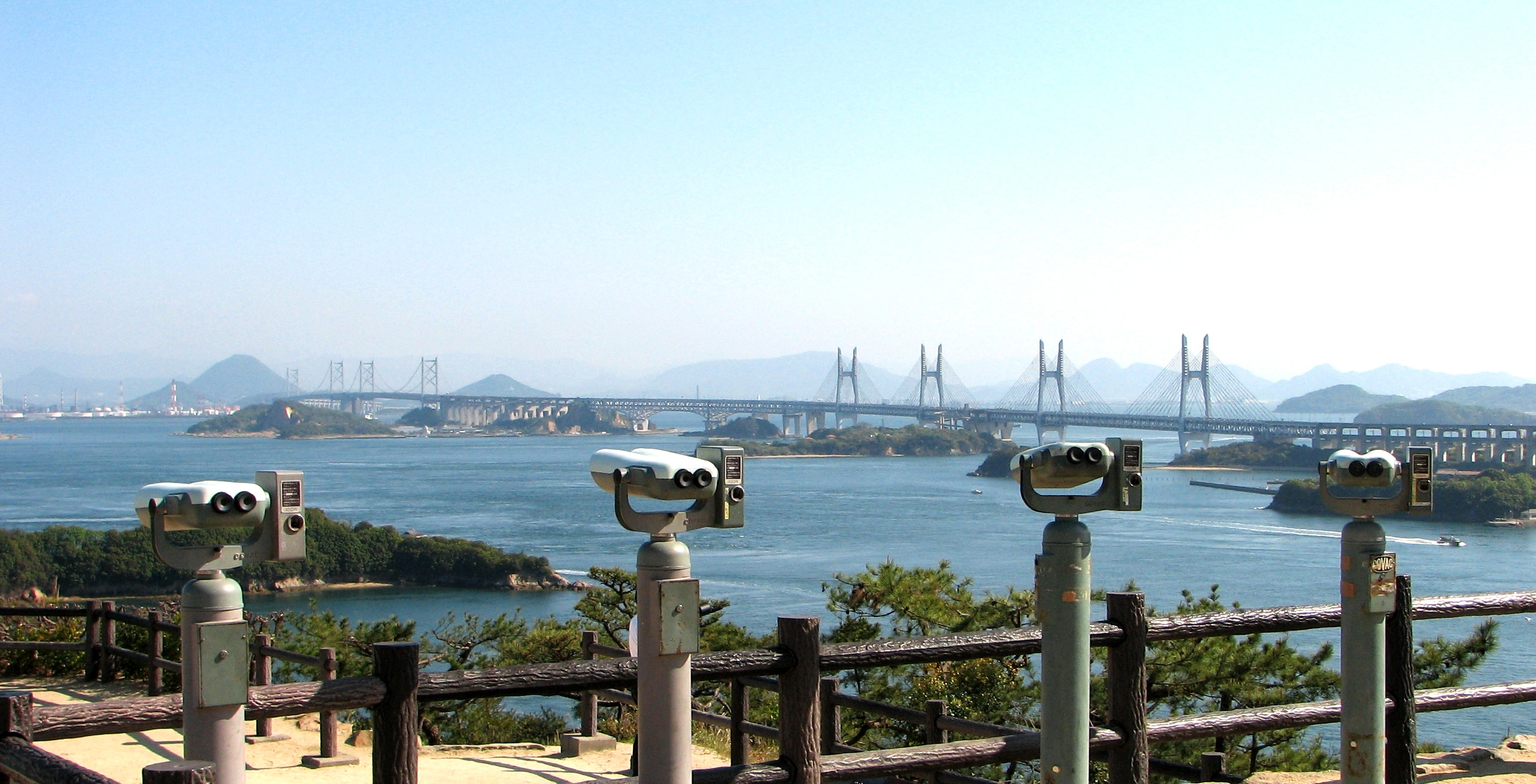 The Great Seto Bridge, Okayama Prefecture and Kagawa Prefecture, Japan